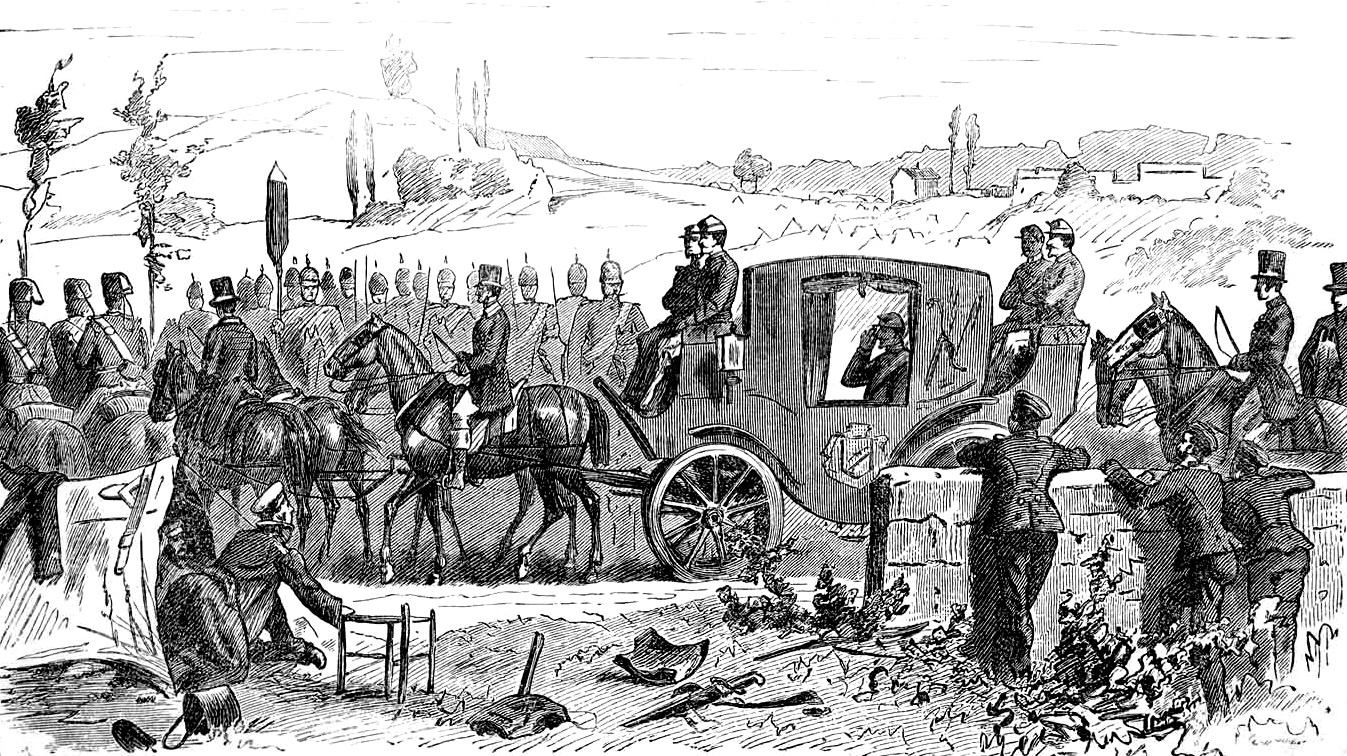 Napoleon III a prisoner on his way to Wilhelmshöhe, Sedan, France, 4 September 1870.